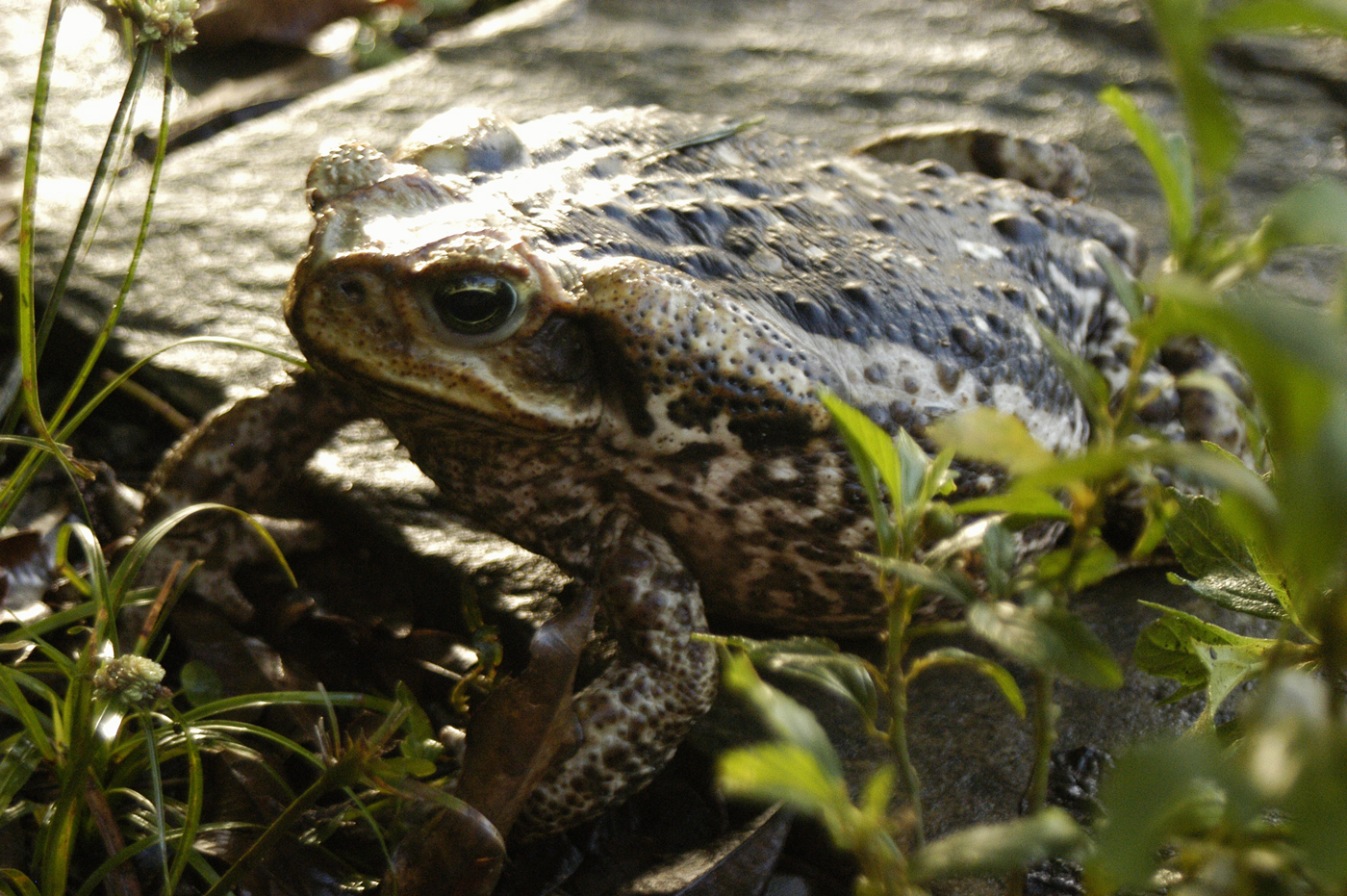 Cururu frog (Bufo), Bahia, Brazil